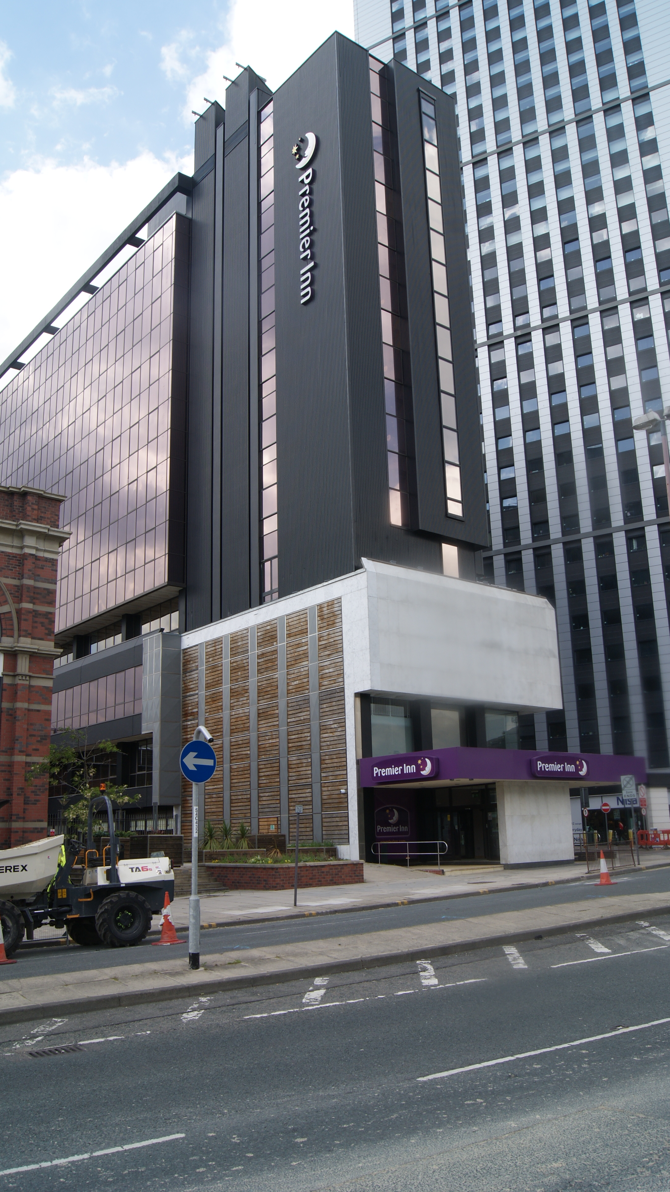 Premier Inn and Sky Plaza as seen from Claypit Lane in Leeds, West Yorkshire. Taken on the afternoon of Wednesday the 20th of June 2012.